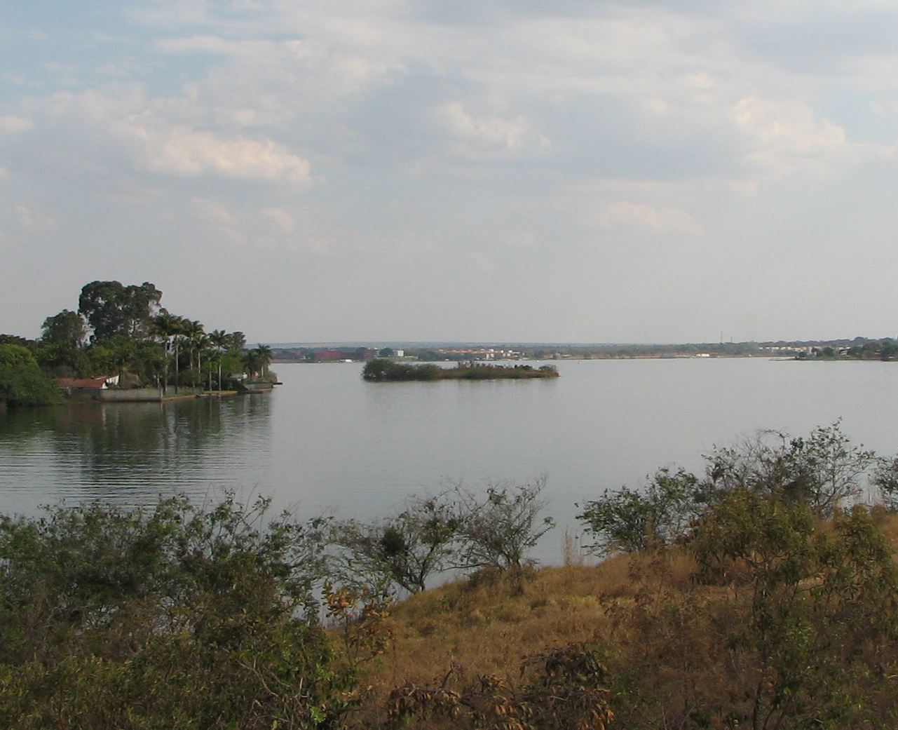 The Retiro Island, Brasilia, Brazil.